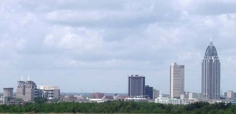 Mobile, Alabama skyline as seen from Battleship Park.